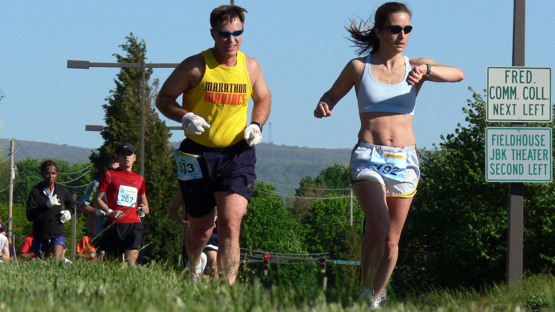 Runner checks time after passing Frederick Community College during the Frederick Marathon - Photo by Timothy Patrick Morrill